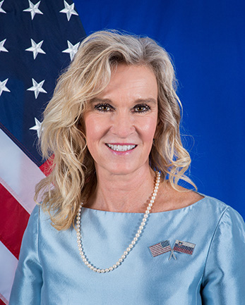 Lynda Gaye Cleveland “Lindy” Blanchard, Ambassador to Slovenia